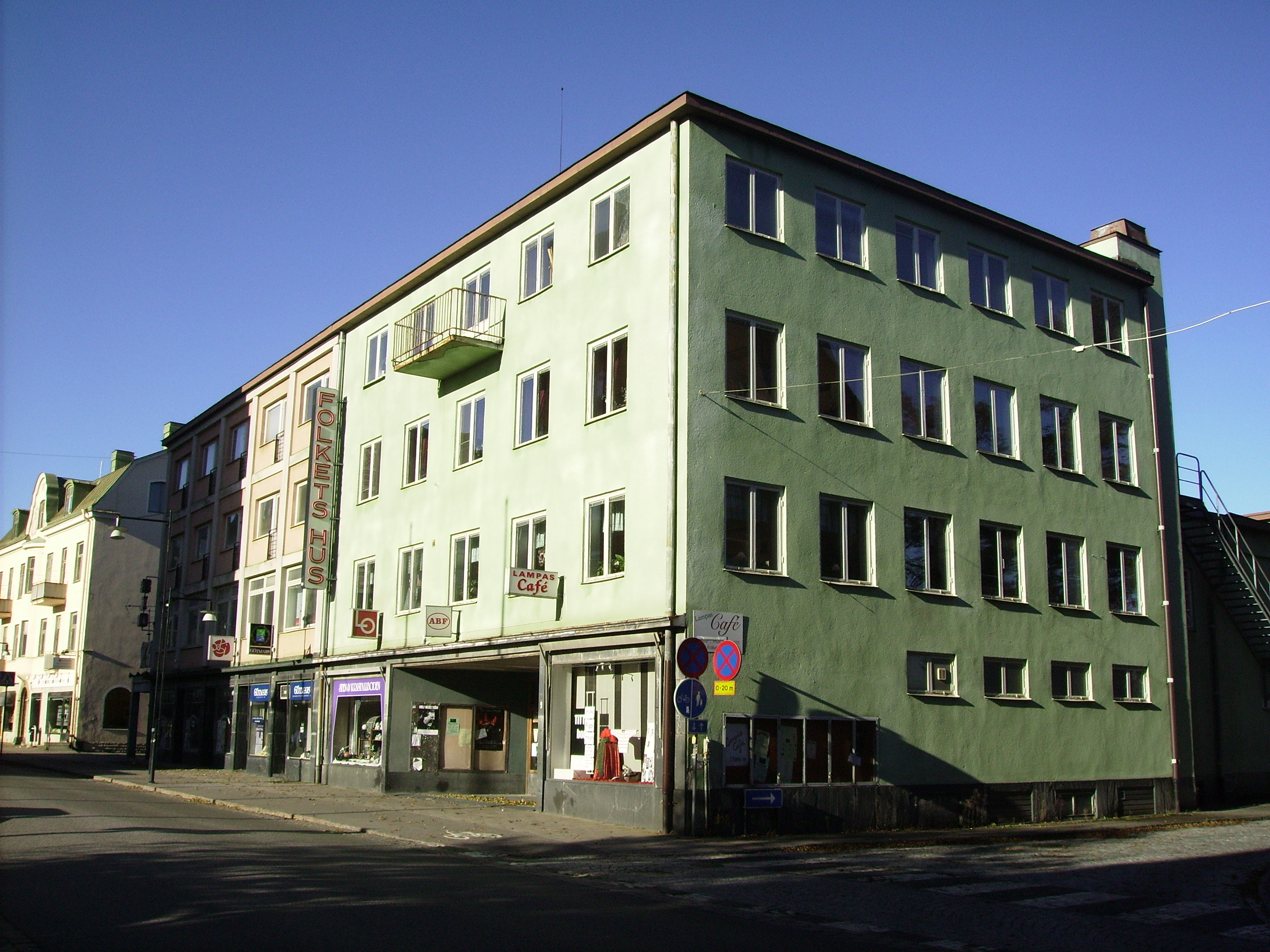 Picture of Folkets hus in Hallsberg